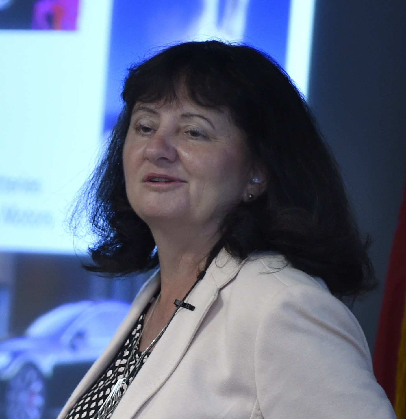 Professor Tresa M. Pollock, Alcoa professor of materials at the University of California, Santa Barbara, discusses advanced materials via science at the mesoscale during a lecture as part of the Office of Naval Research's (ONR) 70th Anniversary Edition Distinguished Lecture Series. ONR is celebrating 70 years of innovation in 2016. For seven decades, ONR through its commands, including ONR Global and the Naval Research Laboratory in Washington, D.C., has been leading the discovery, development and delivery of technology innovations for the Navy and Marine Corps. (U.S. Navy photo by John F. Williams/Released)